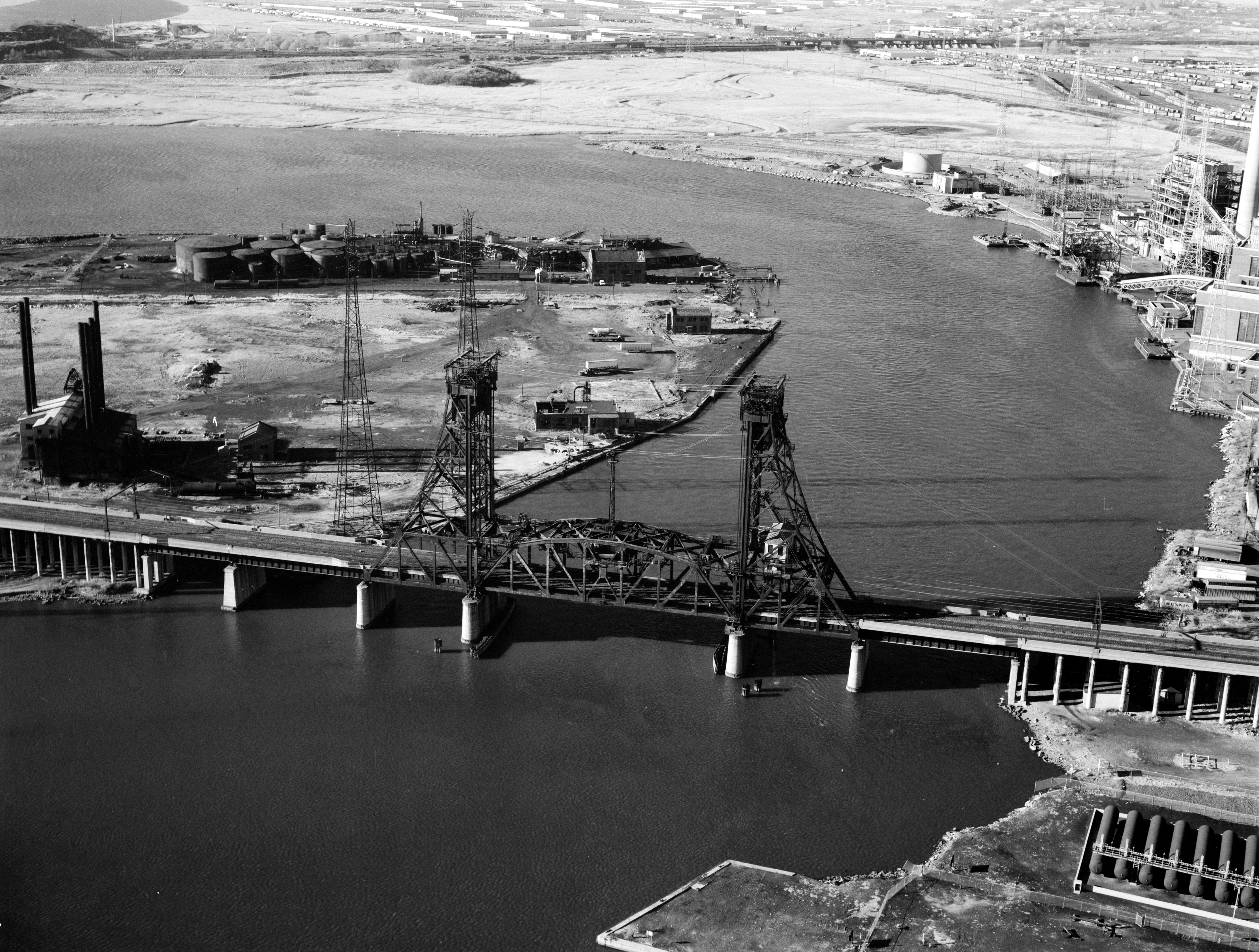 Aerial view of Lower Hack Lift Bridge over the Hackensack River, Jersey City, New Jersey, USA. Looking southwest. The bridge opened for traffic in 1928. The bridge currently carries the Morristown Line of New Jersey Transit. Cropped image.